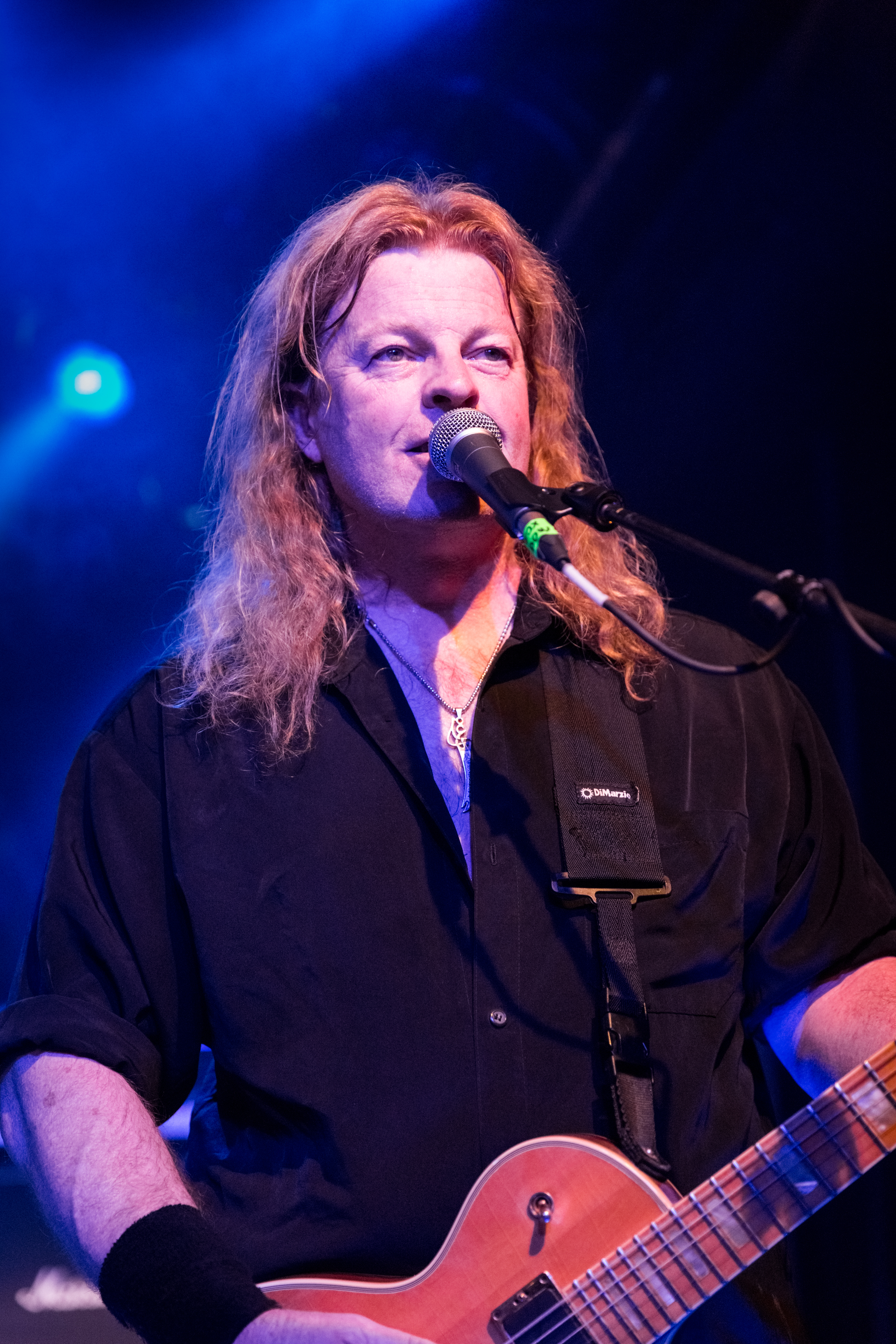 Masterplan (band) - Börsencrash Festival Wuppertal 2016